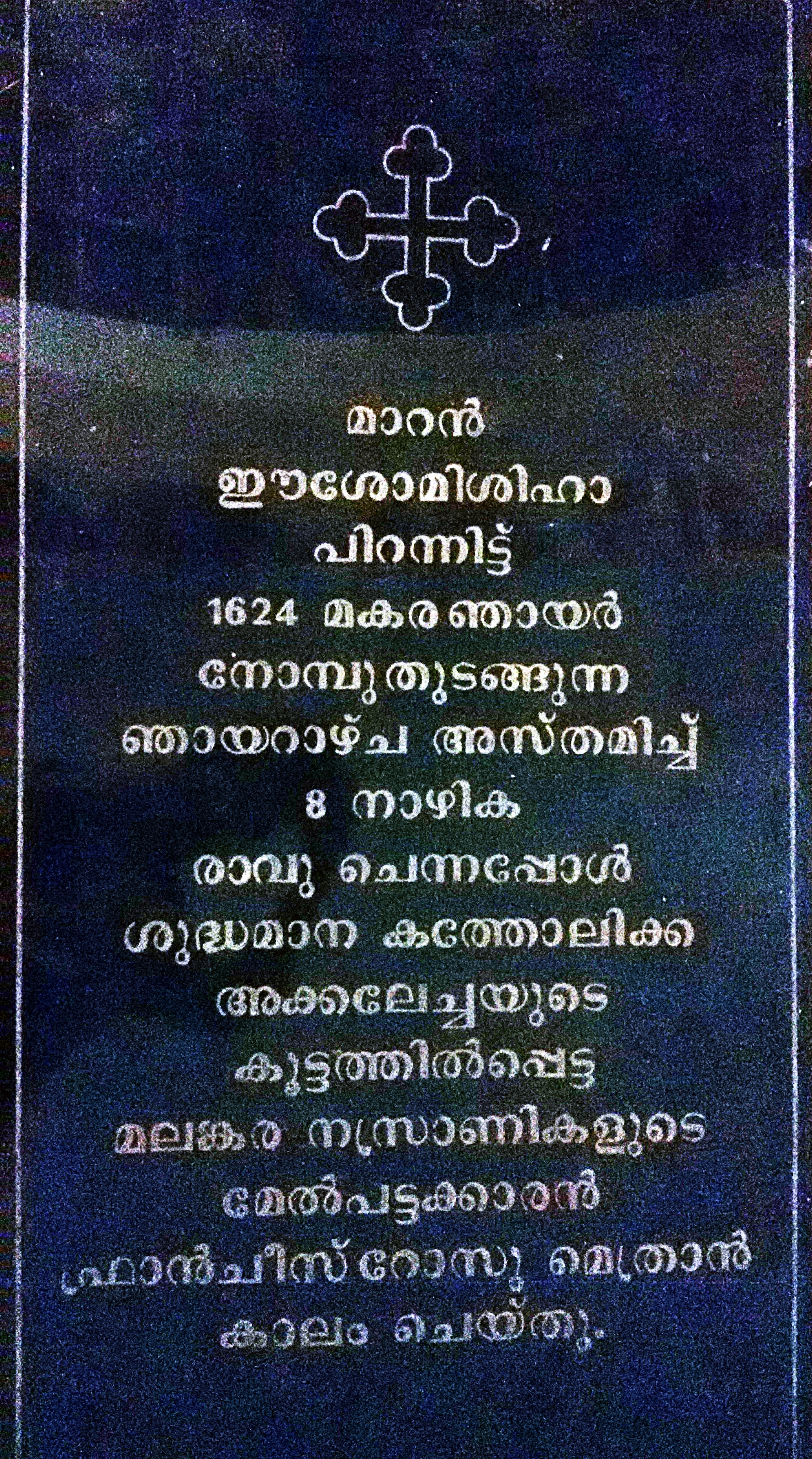 Tomb of Metropolitan of Kodungalloor Archeparchy, Mar Francis Roz, inside Kottakkavu Mar Thoma Syro-Malabar Pilgrim Church founded by St. Thomas the Apostle.